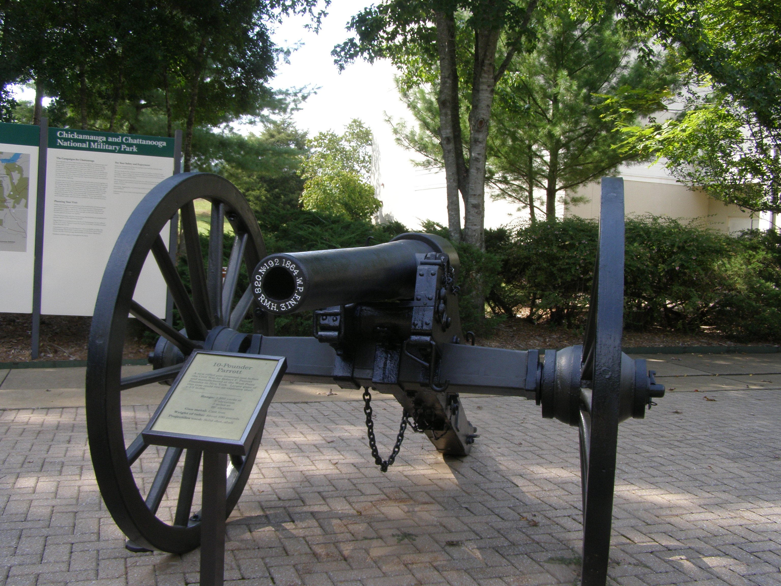 10-pounder Parrott at the Chickamauga Battlefield Visitor Center in Fort Oglethorpe, GA.